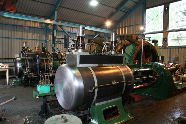 Papplewick Pumping Station, steam winding engine. This is a 1922 built Robey of Lincoln horizontal duplex steam winding engine. It was used at Linby Colliery and although the smaller of the two steam winders was the coal-puller. It was a fast little engine and great fun to watch. It stopped in 1982, after 60 years' service, and was moved to Papplewick in 1983. It is beautifully restored and run more or less as it would have been in service. This is one of very few surviving duplex winders and the only one that can be seen operating.